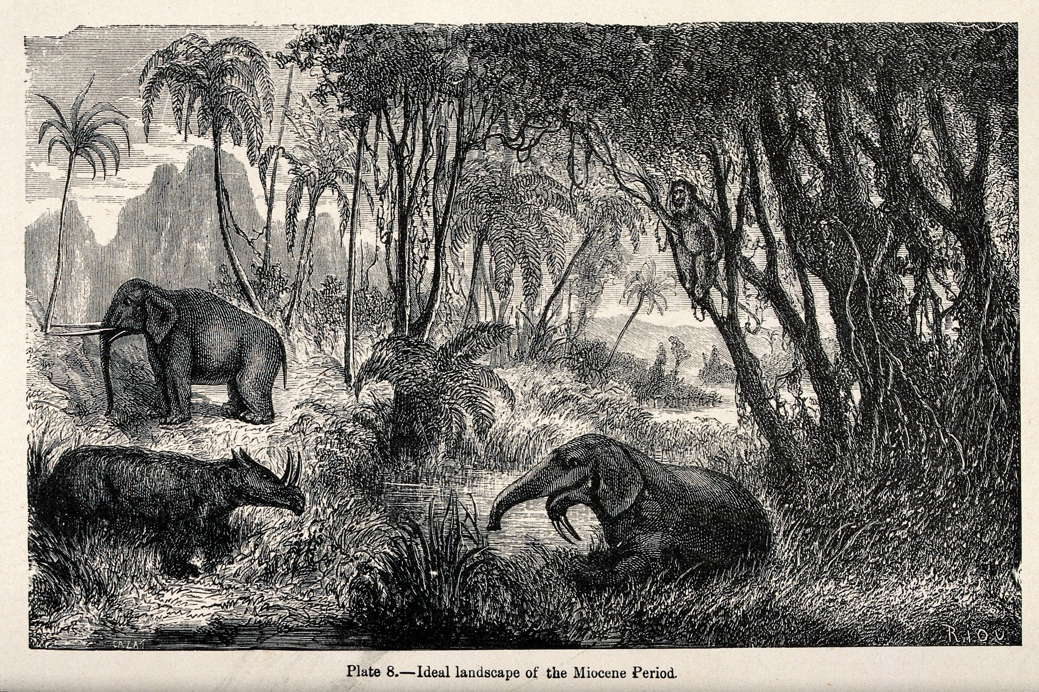 An ideal landscape of the Miocene period, with elephants rummaging through a forest. Wood engraving by Riou after Cazat. Iconographic Collections Keywords: Cazat; Eduard Riou